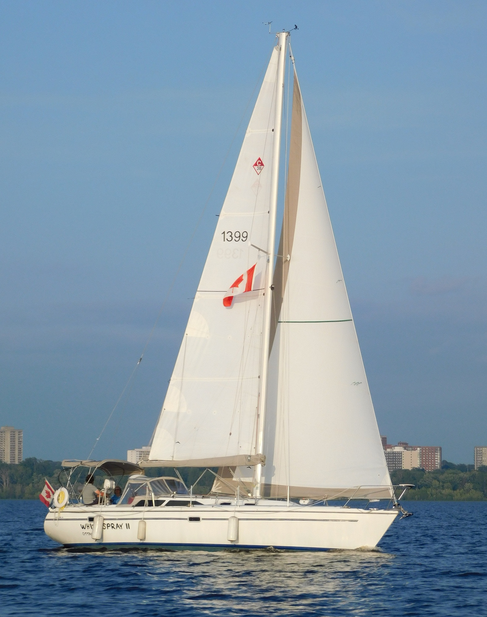 A Catalina 36 Mark II sailboat named White Spray II.